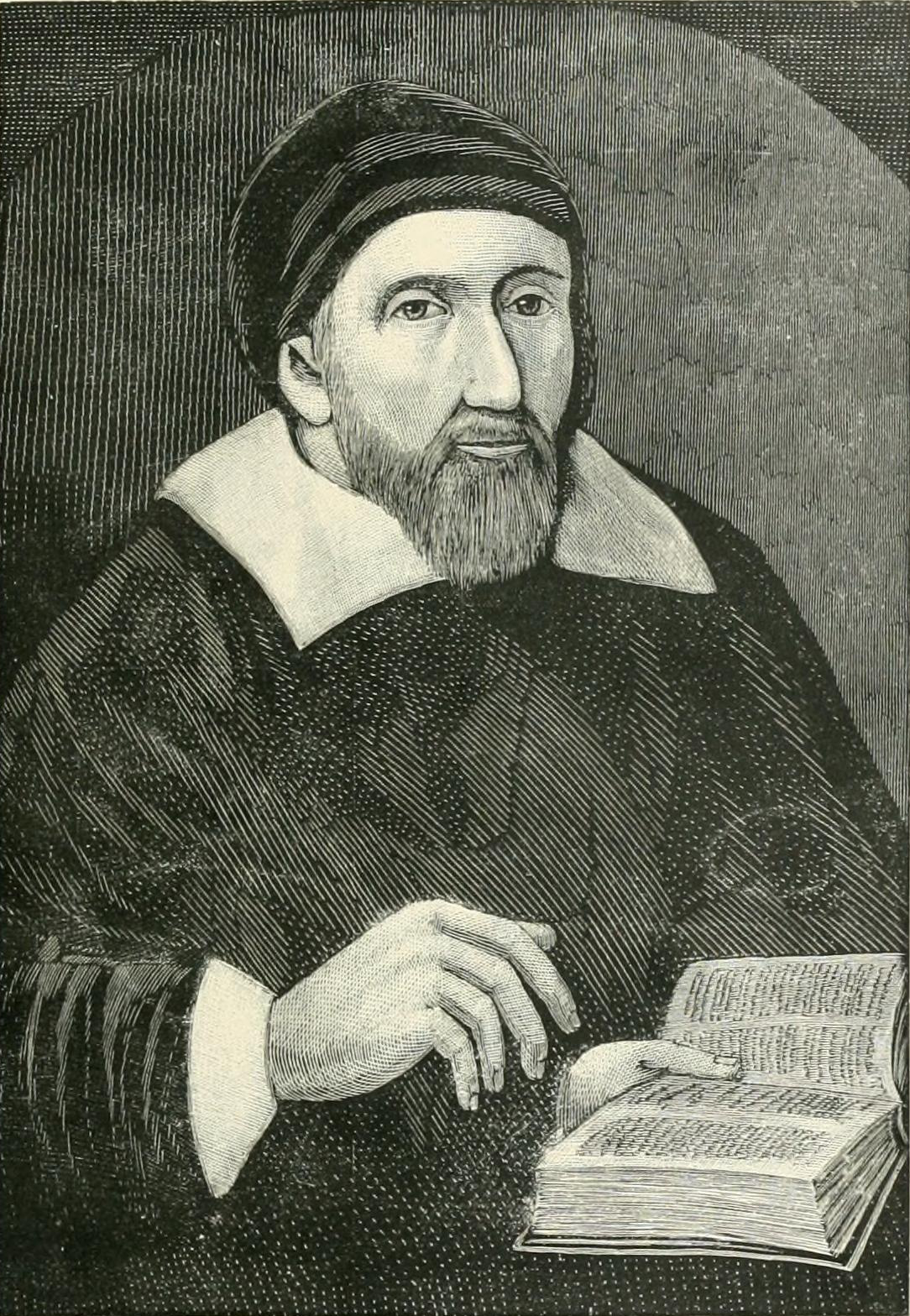 Portrait of Richard Mather. Woodcut from a photograph of the original in the collection of the American Antiquarian Society at Worcester Mass. The original was the first print known to have been made in the American colonies according to Michael G. Hall: Increase Mather. The Last American Puritan. Wesleyan UP, 1988, p. 9.